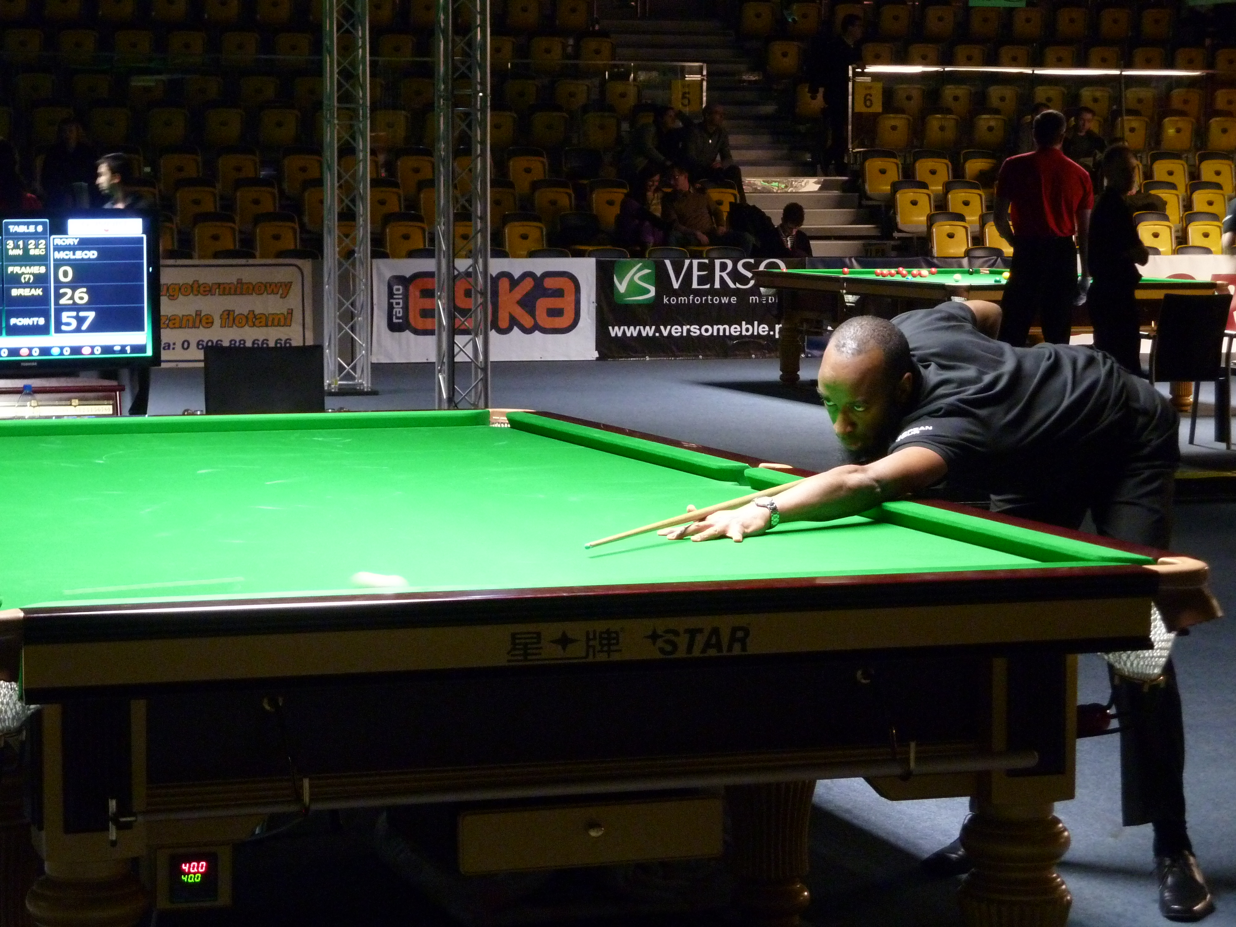 Rory McLeod, Gdynia Open 2014